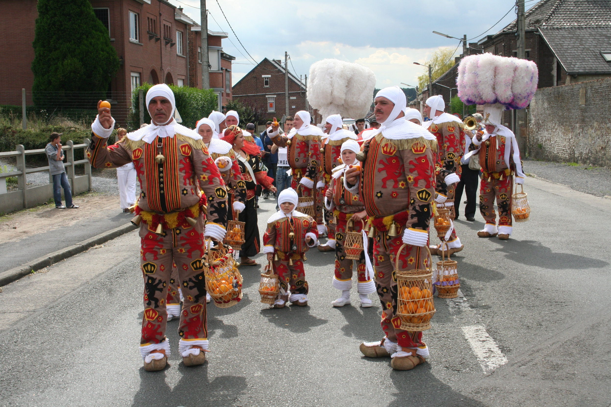 Havré (Belgium), chaussée du Roeulx - The Gilles.